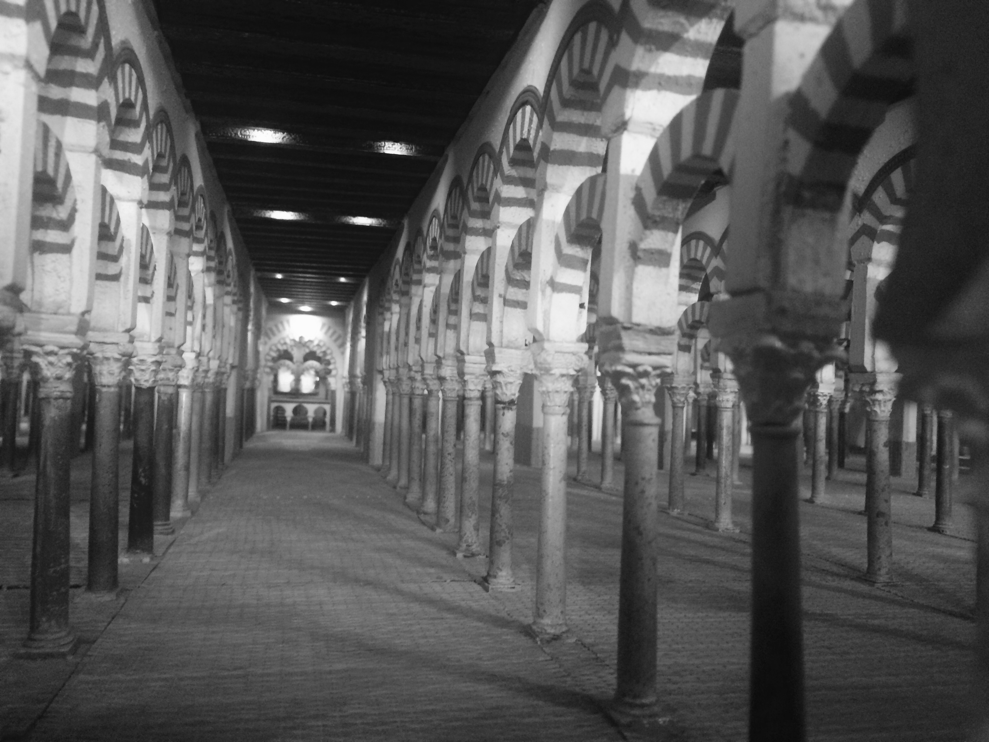 Photo depicting the interior of the Mosque-Cathedral of Córdoba